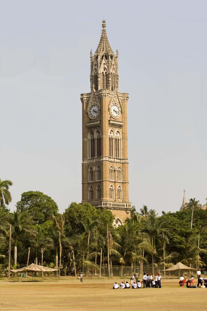 Clock Tower Mumbai University